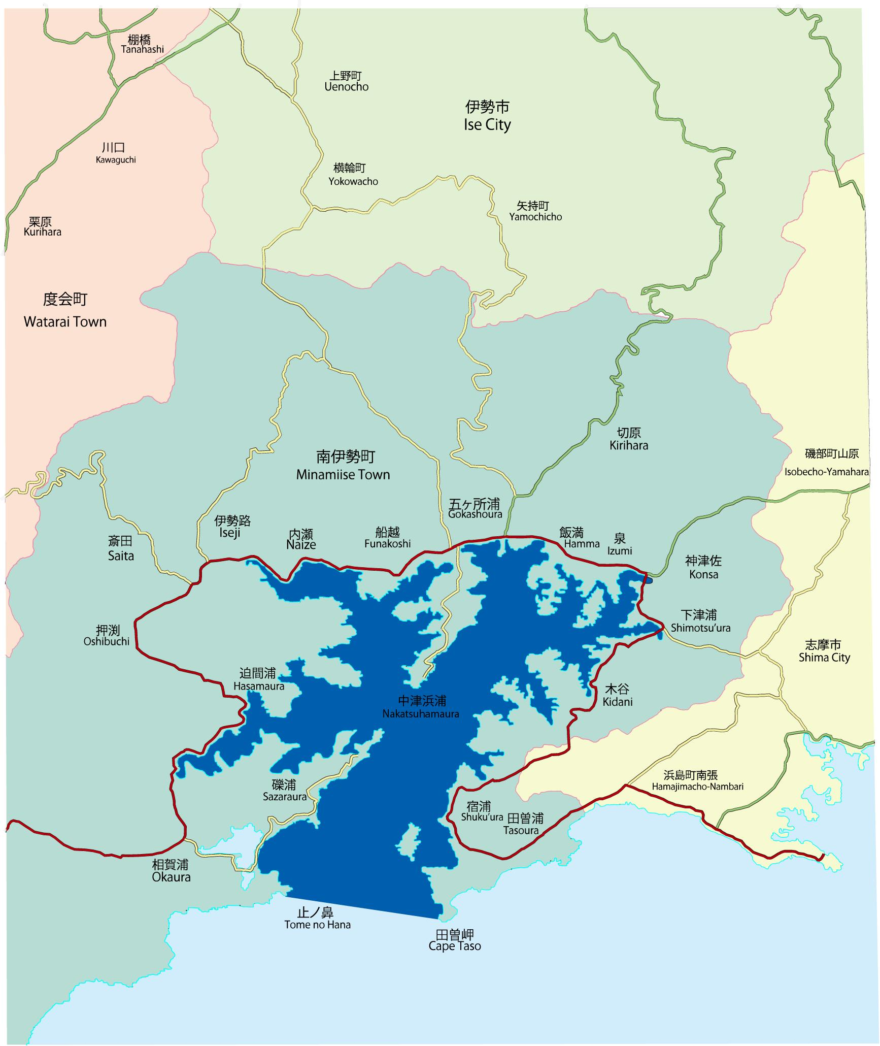 Range of Gokasho bay in Mie,Japan.